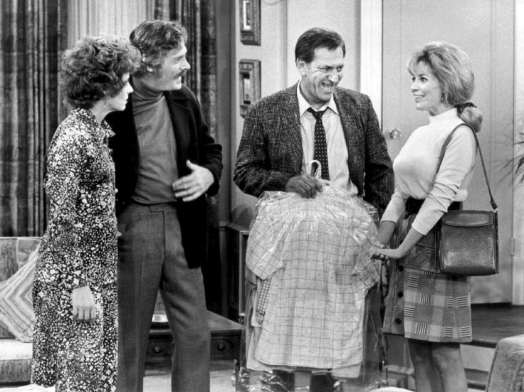 Photo from the television program The Odd Couple. From left: Joan Hotchkis (Oscar's girlfriend, Nancy), Fred Beir (Nancy's brother, Ray), Jack Klugman (Oscar Madison), Janis Hansen (Felix's ex-wife, Gloria). Trouble brews when Oscar introduces Gloria to Nancy and her brother; Gloria starts dating Ray.